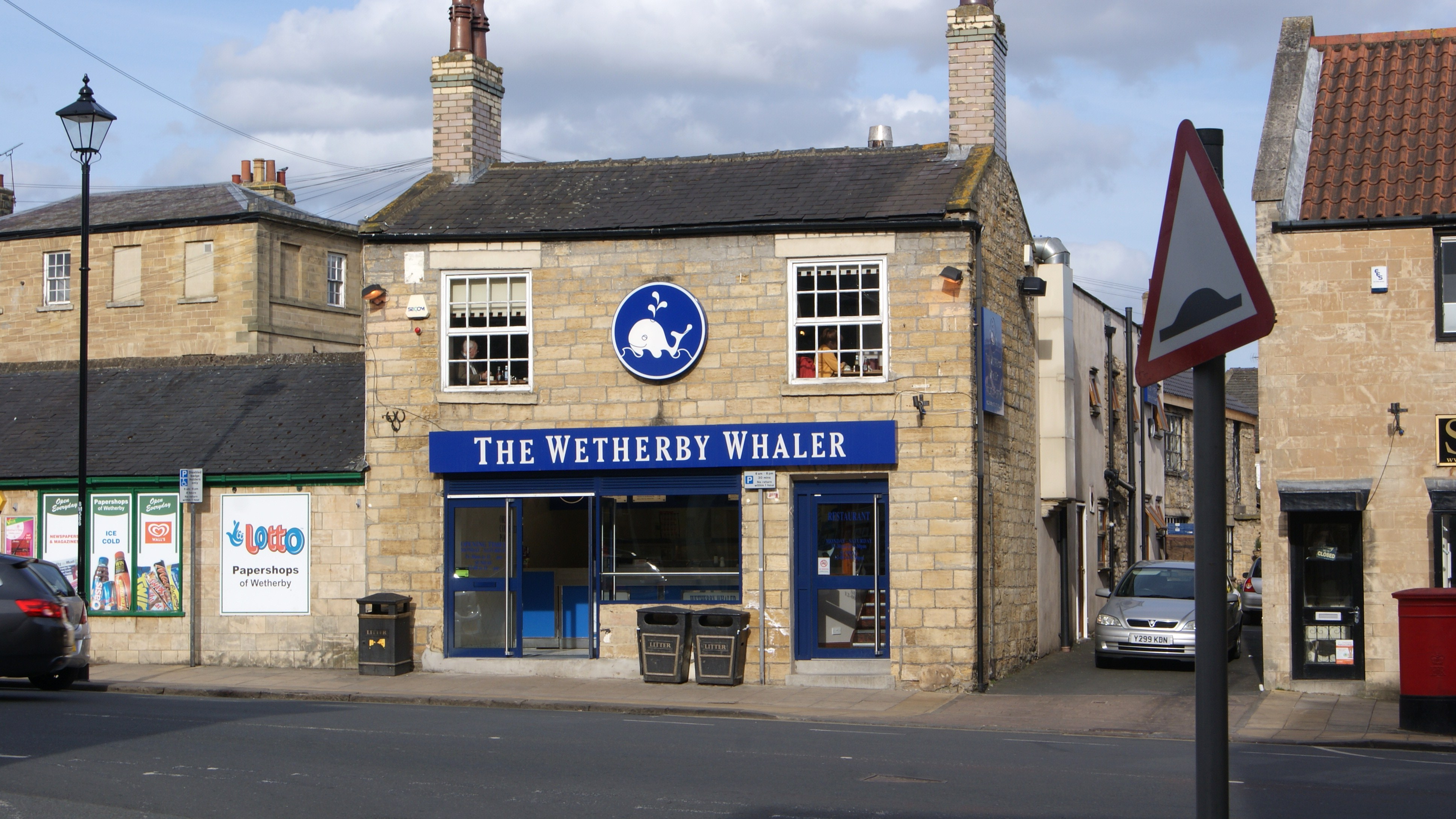 Wetherby Whaler, Market Place, Wetherby, West Yorkshire. Taken on the afternoon of Monday the 15th of April 2013.